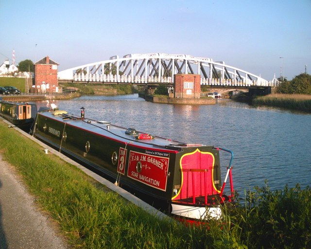 Acton Bridge, Weaver Navigation Swing bridge carrying the A49, Warrington Road, over the Weaver Navigation, viewed from downstream, towards Dutton Lock.